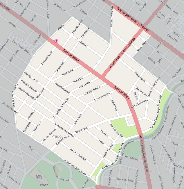 Street map of Paso de las Duranas, Montevideo, exported from OpenStreetMap. I added shading to delimit the barrio. This map may be incomplete, and may contain errors. Don't rely solely on it for navigation.